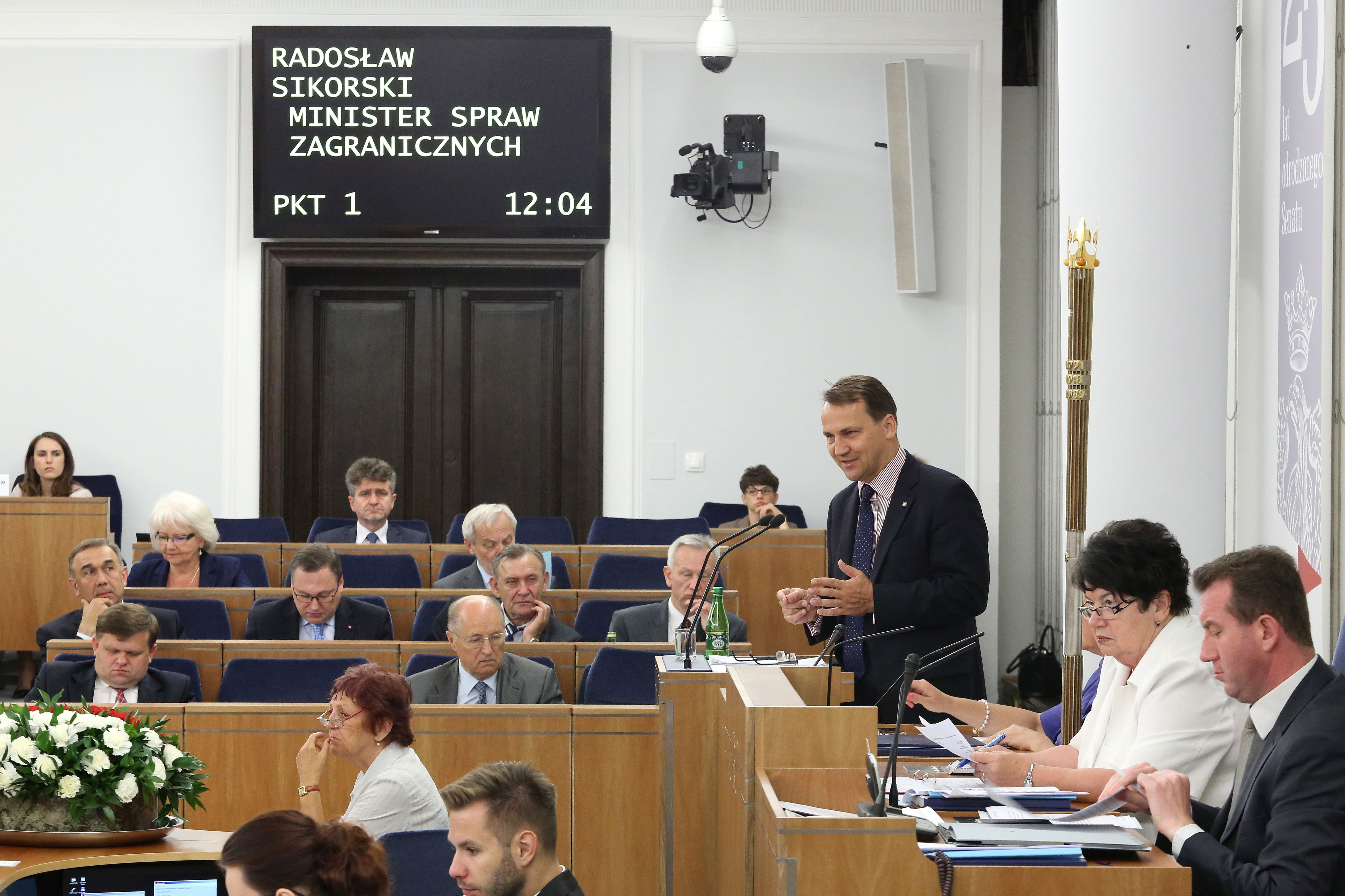 Minister for Foreign Affairs Radosław Sikorski during 56th sitting of the Polish Senate